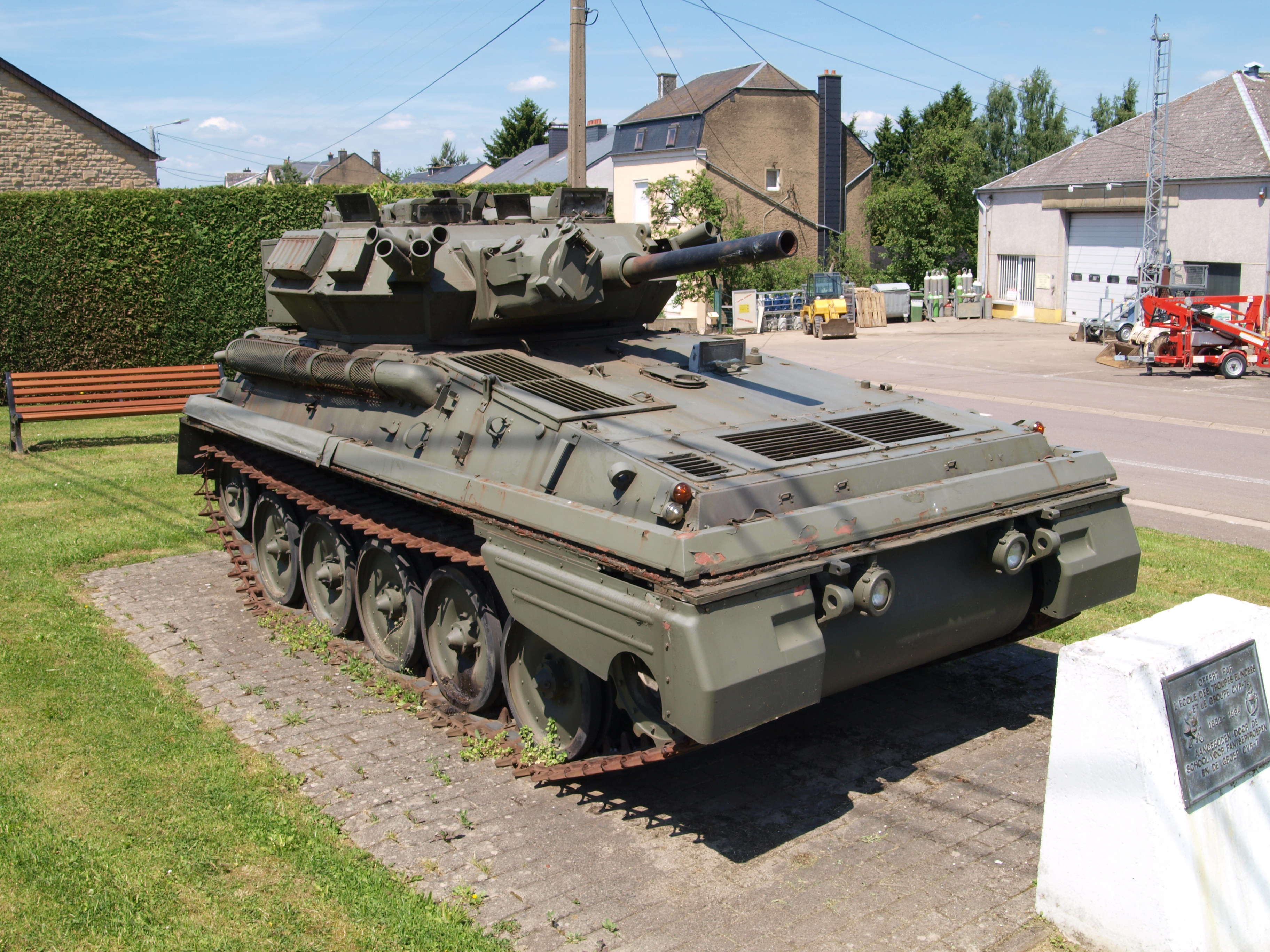 Combat Vehicle Reconnaissance (Tracked) Scorpion near Arlon, coordinates 49.687063,5.784379